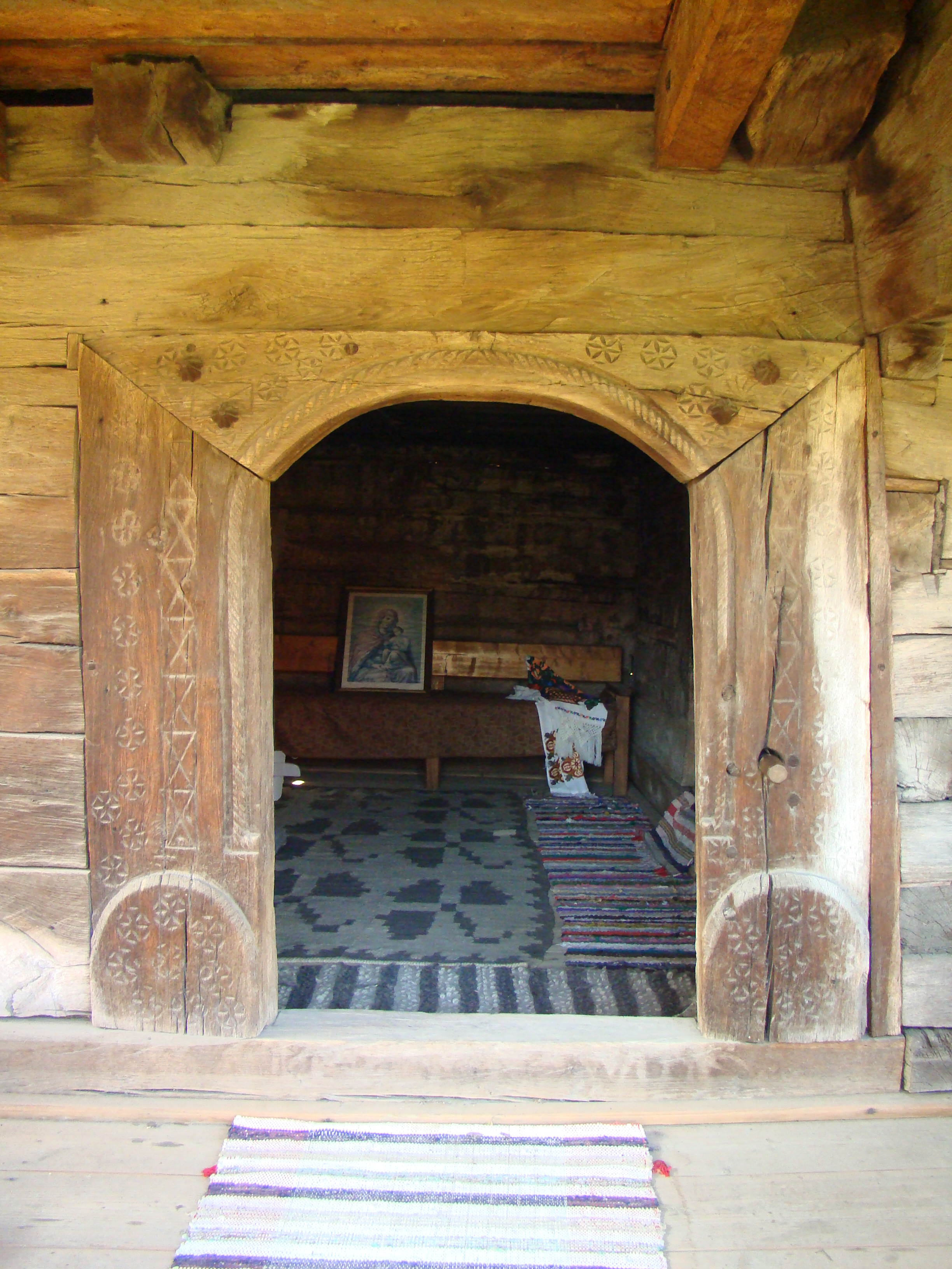 Wooden church in Sărata, Bistrița-Năsăud county